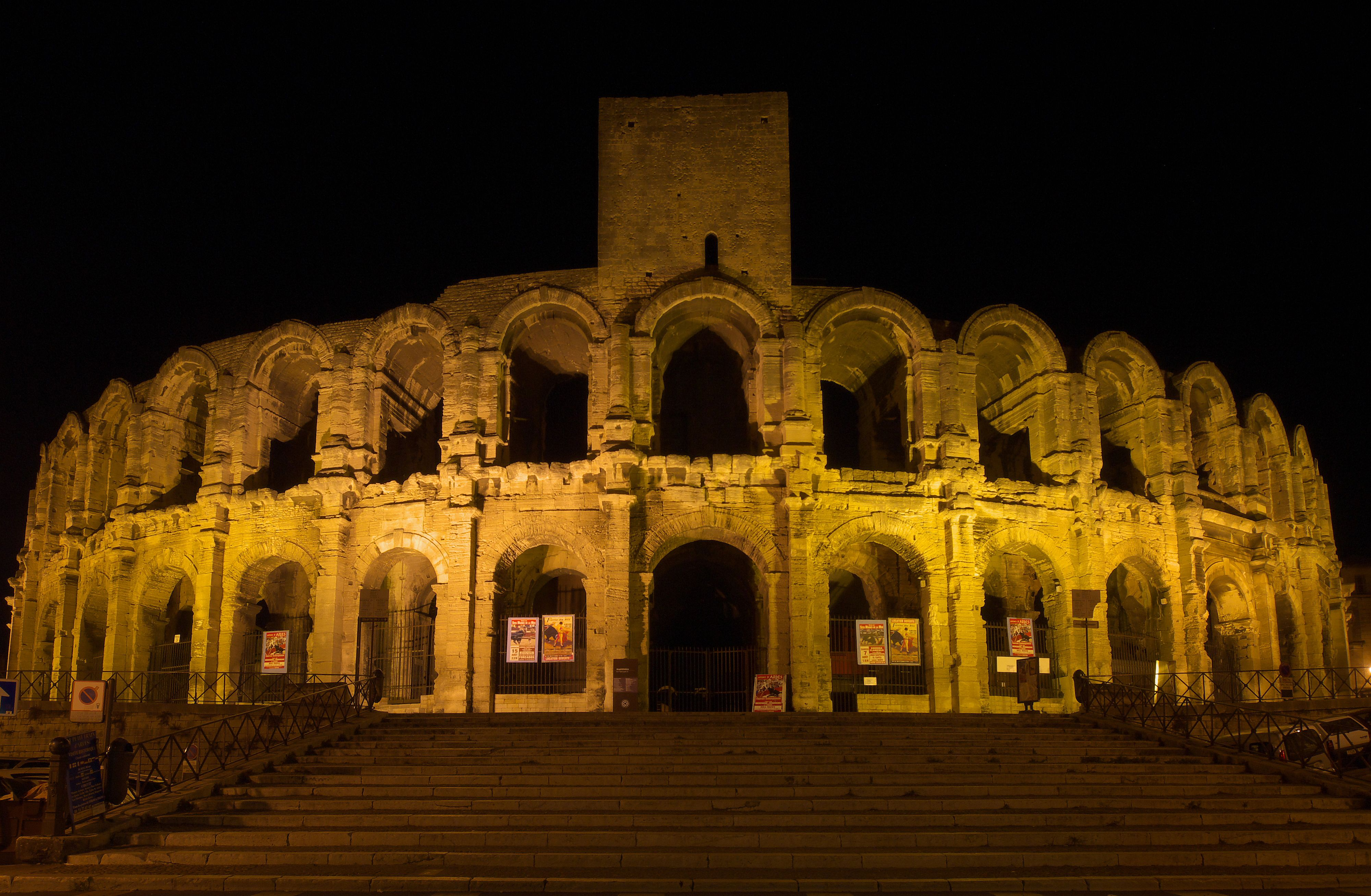 France: Arles Amphitheatre at night from North (renewed)